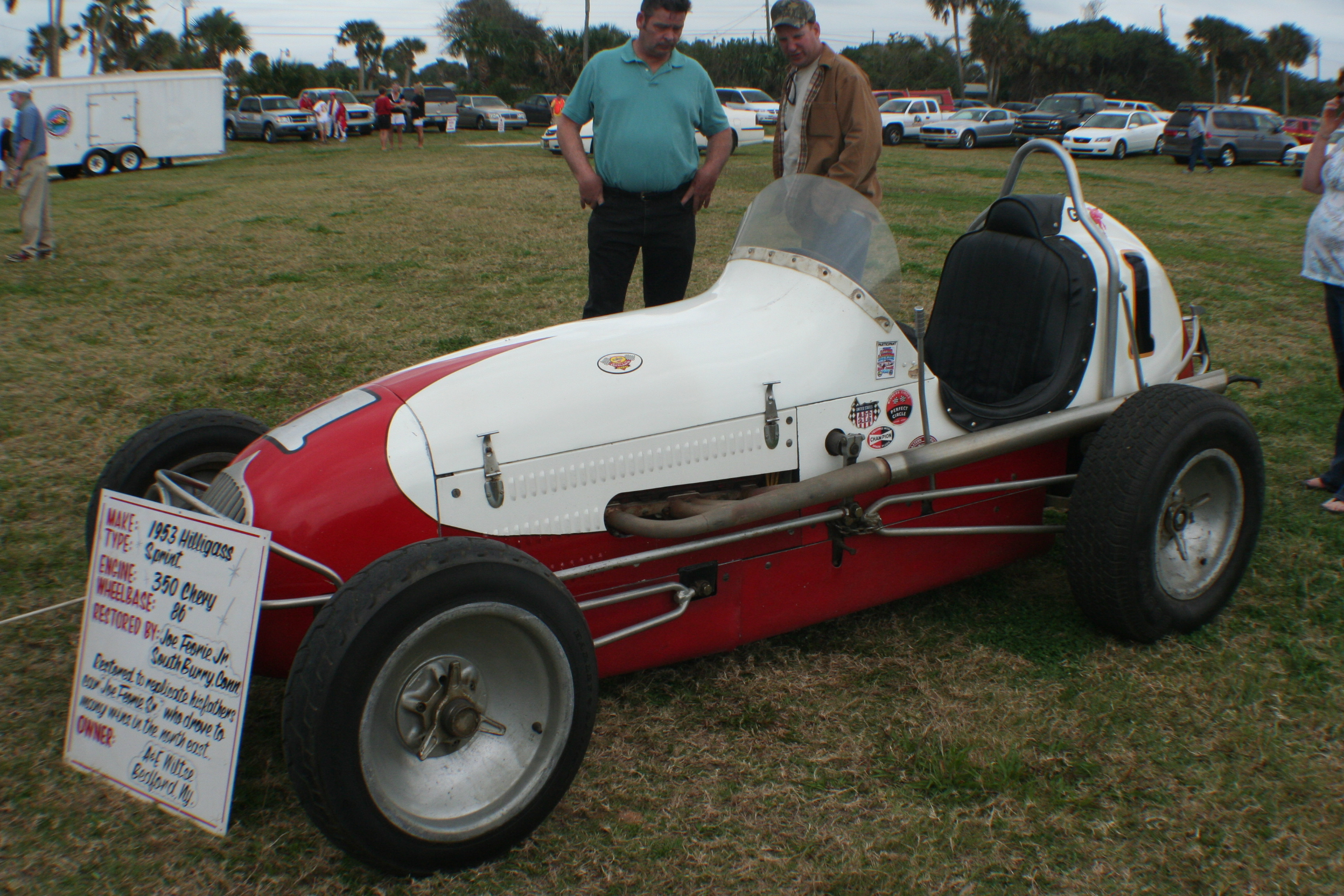 Shot by "The Daredevil" at Daytona during Speedweeks 20081953 Hilligass Sprint car